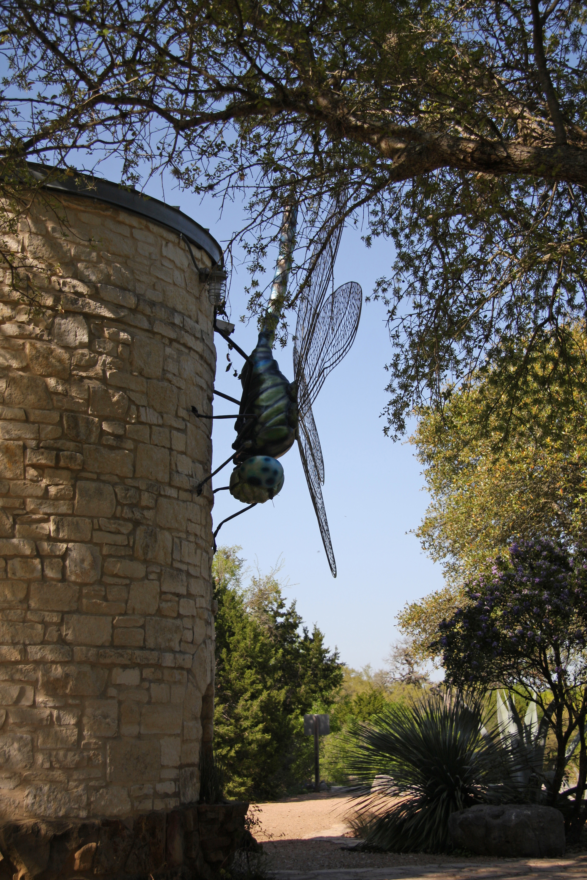 Giant dragonfly sculpture on side of stone water tower, Lady Bird Johnson Wildflower Center, Austin Texas.